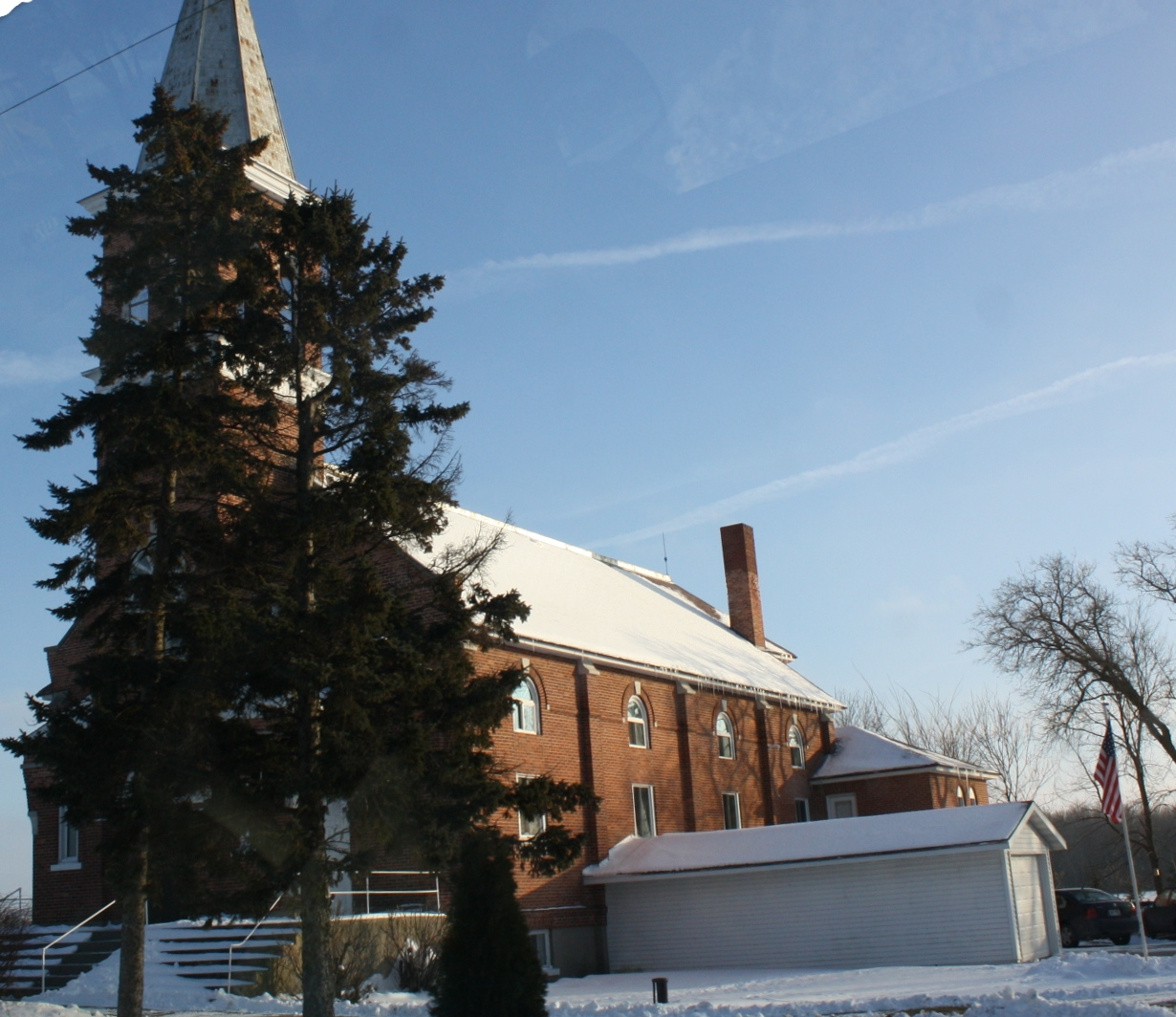 St Odile Catholic Church in downtown Thiry Daems, Wisconsin.